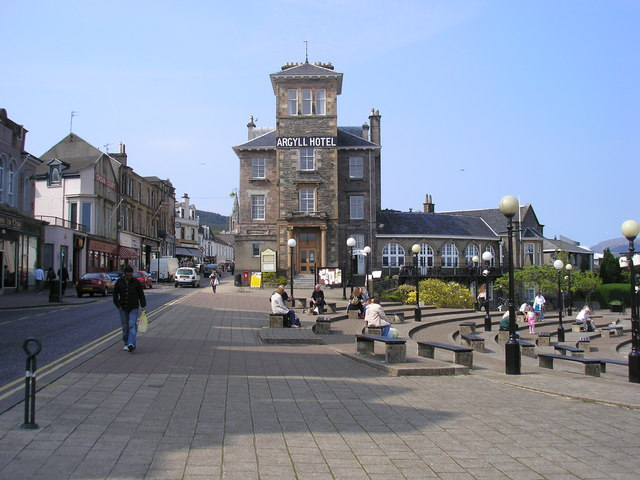 The Argyll Hotel. The view of the Argyll Hotel. There is a seating area in front of the hotel which forms a semicircle around a bandstand 418159.